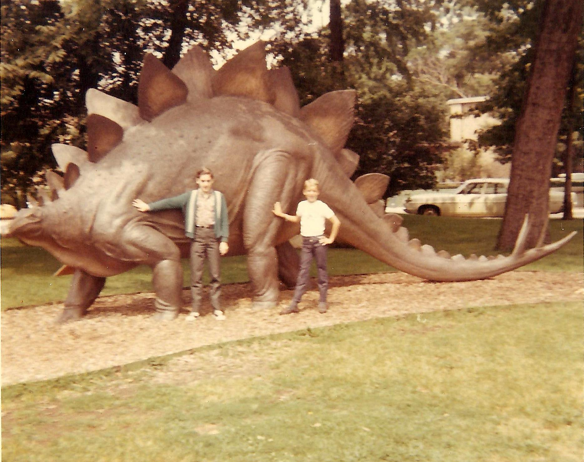 Robert (13) and Jeffrey (10) Baran with first life-size model of Stegosaurus outside of Cleveland Museum of Natural History, Cleveland, Ohio, summer 1969.